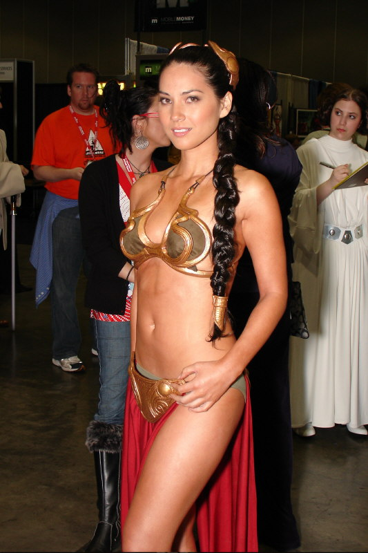 American television host Olivia Munn dressed as Princess Leia.